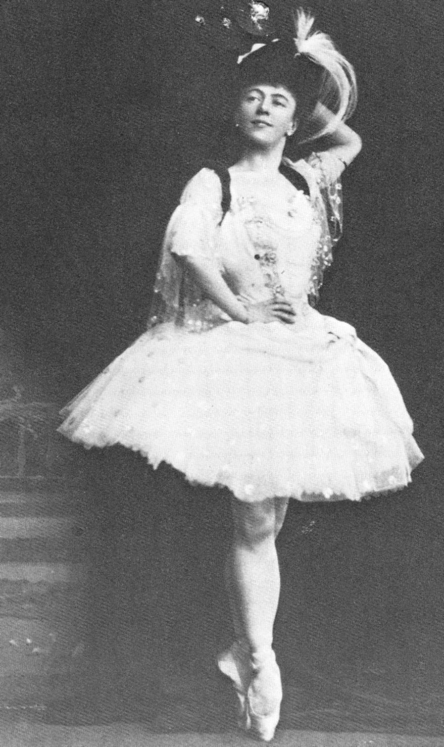 Photo taken by an unknown photographer at the Mariinsky Theatre, St. Peterbsurg, Russia of the Ballerina Olga Preobrajenskaya in title role of the ballet "Raymonda"